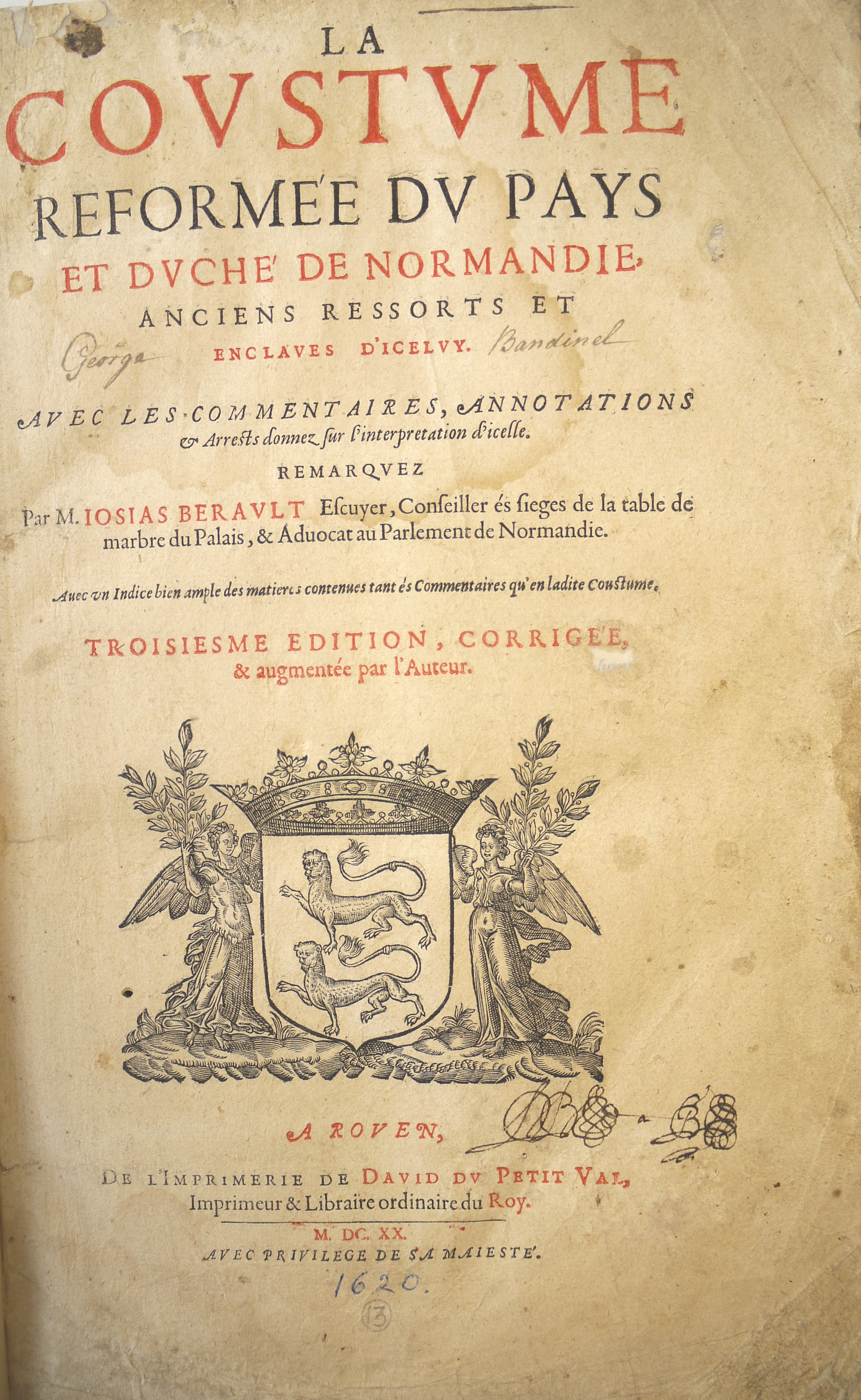 Page from the 1620 edition of Berault's commentary on Norman customary law